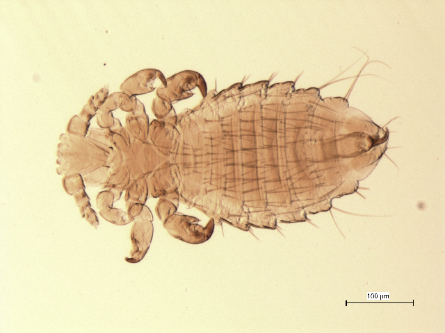 Hoplopleura acanthopus